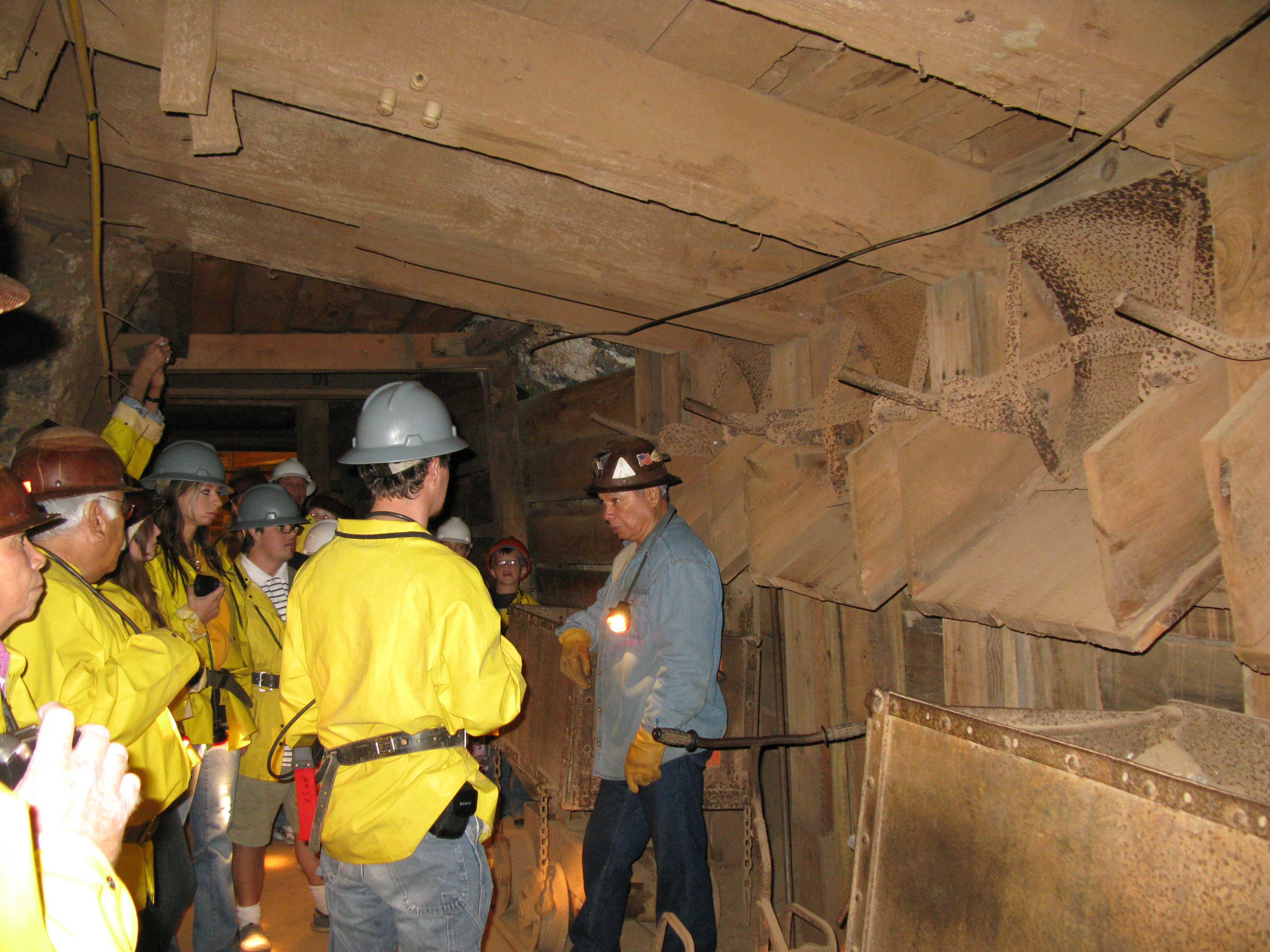 Tour inside the Copper Queen Mine, Bisbee, Arizona.